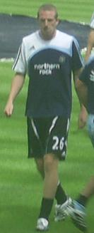 Image of Peter Ramage warming up before a match.